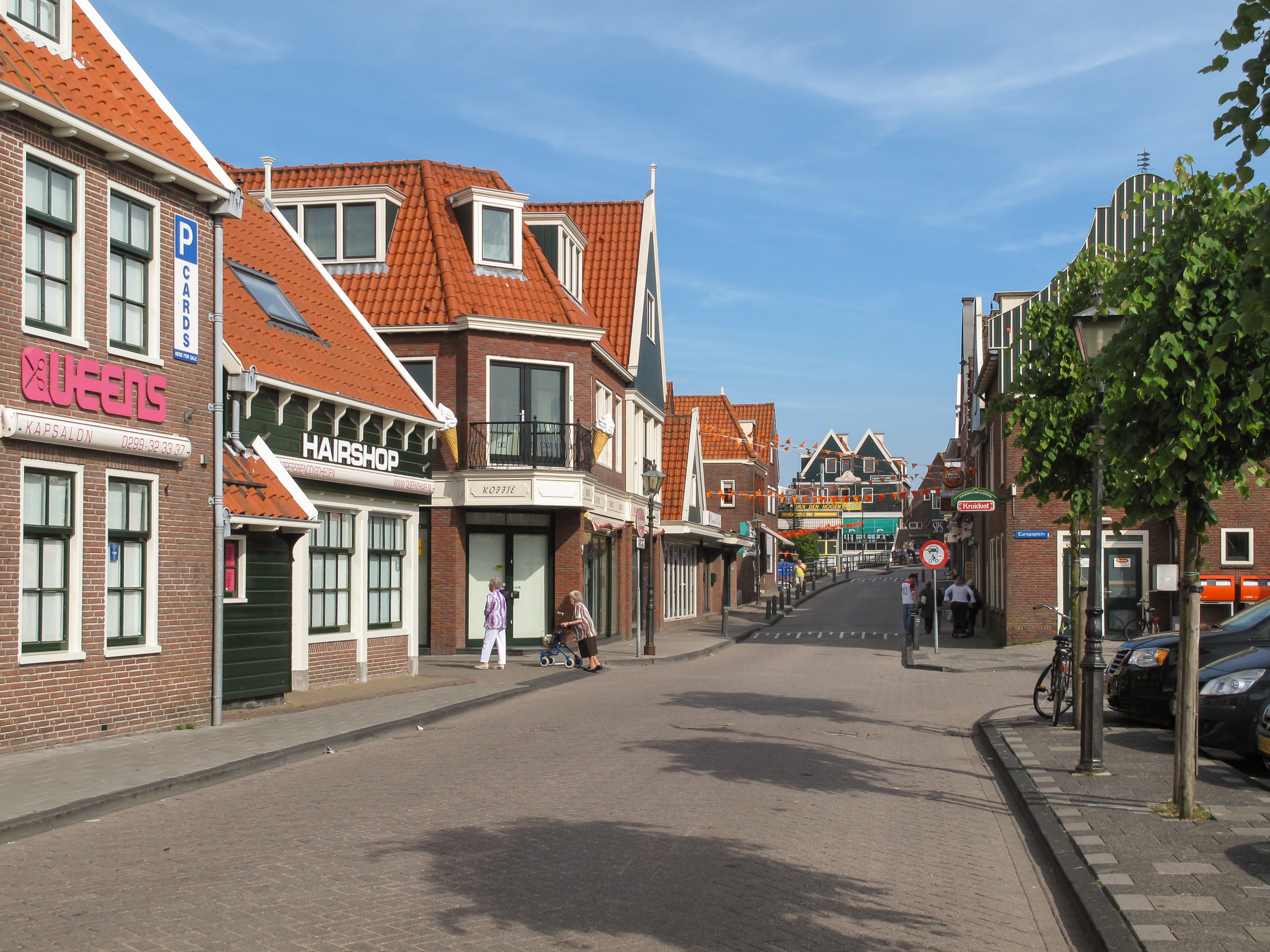 Volendam, view to a street